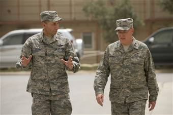 Chaplain (Maj Gen) Cecil Richardson, makes his first visit to Bagram Airfield, Afghanistan. Also in the photo Brig Gen Mike Holmes, 455th Air Expeditionary Wing Commander.